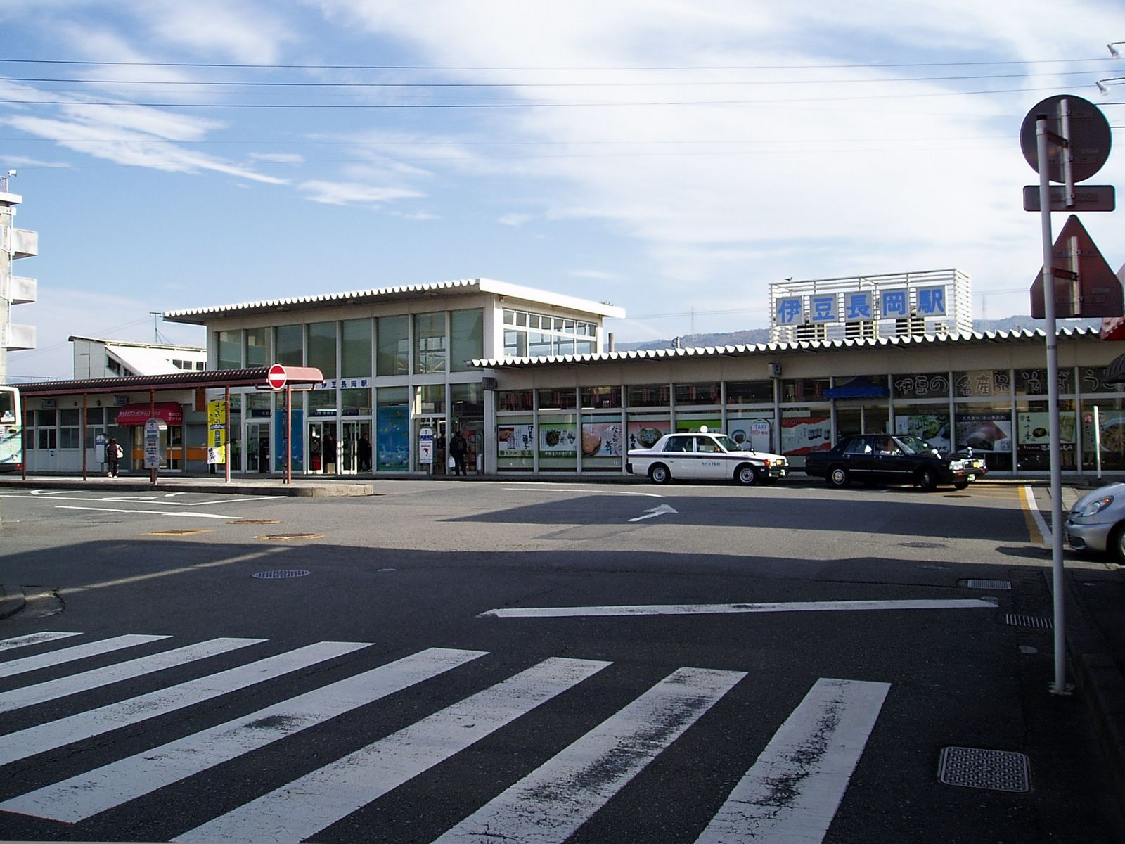 Isuhakone Railway Company, Izu-Nagaoka Sta. 2007.11.26 Photo by Cassiopeia_sweet.